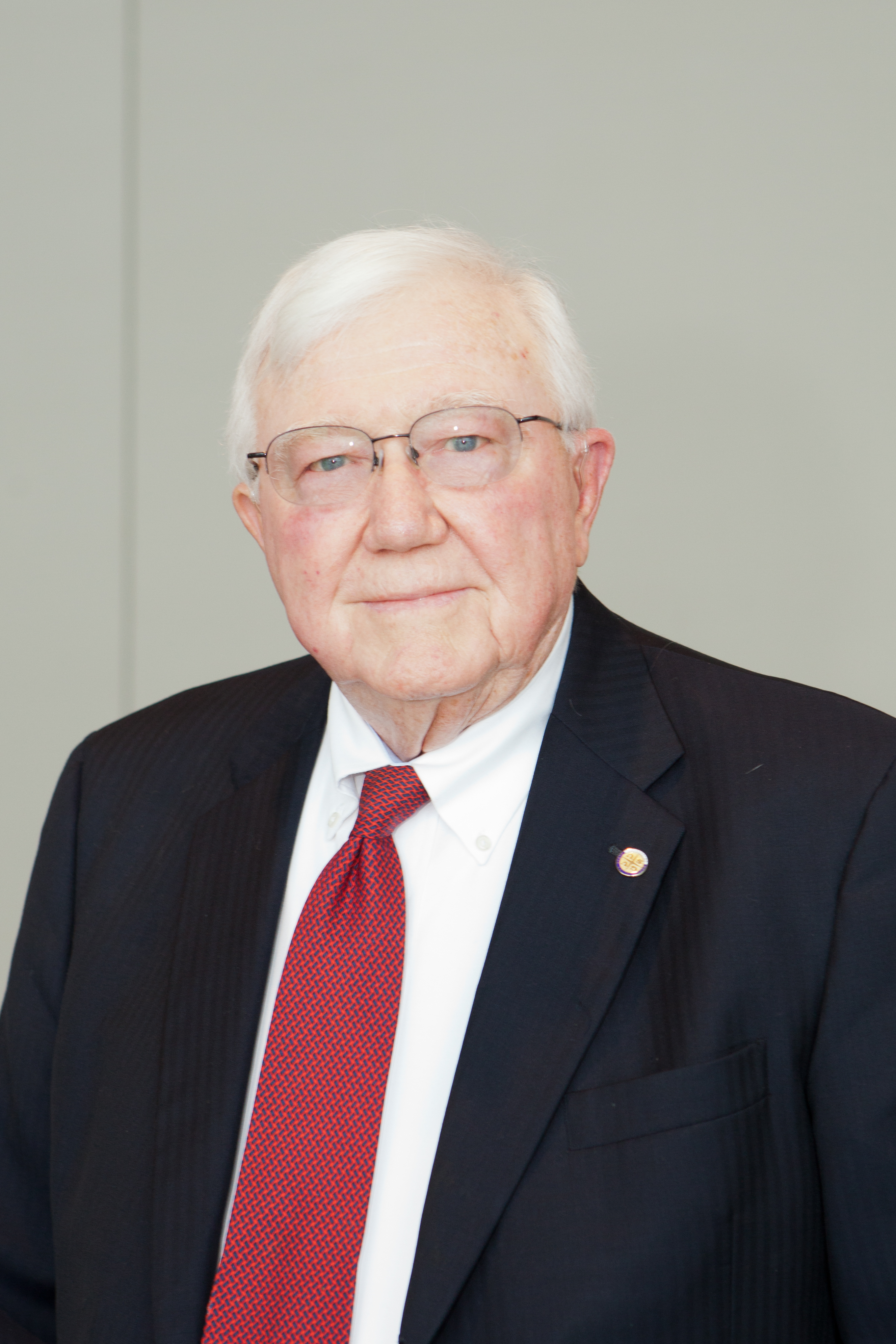 Dr. Arend "Don" Lubbers receiving the Henri Dunant Global Impact Award in 2014